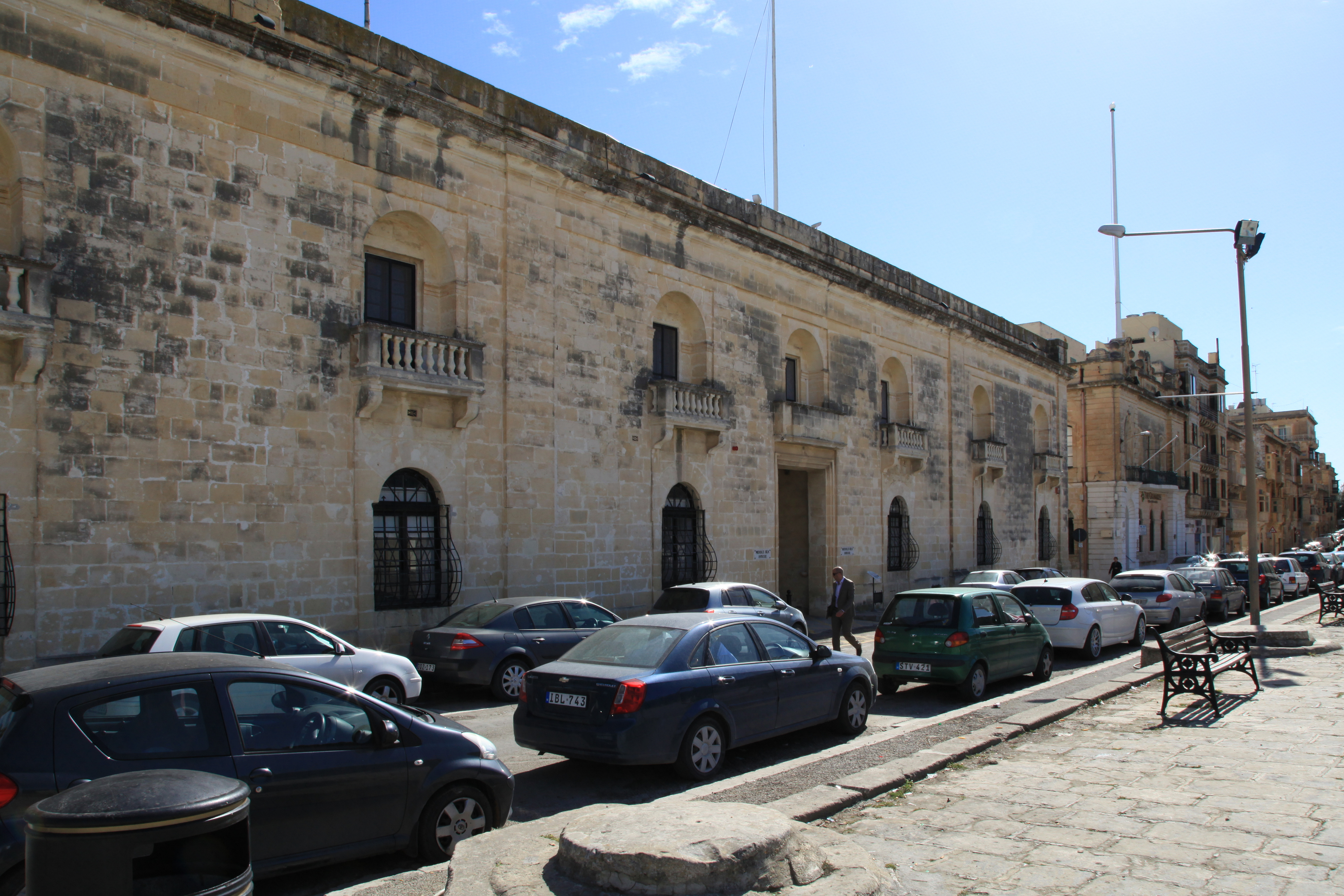 Montgomery House at Triq San Publiju in Floriana, Malta